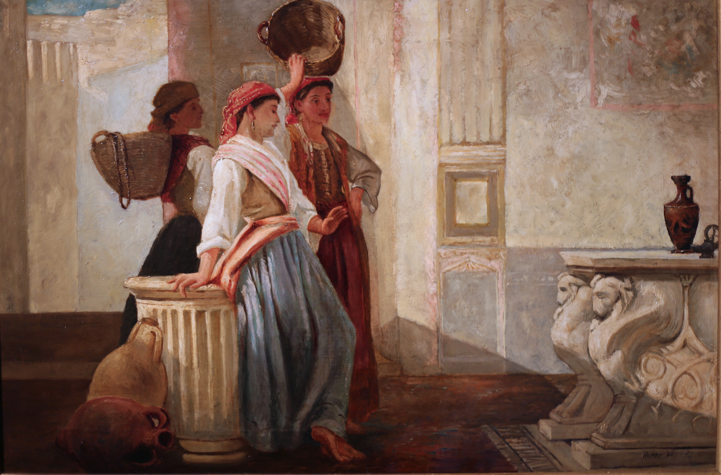 Painting by Henry Woods (1846-1921) of three women contemplating classical art. It evokes the atmosphere of an ancient Roman city. Woods based this painting on women that he saw during his many years of living in Italy, and on artifacts excavated from Pompeii. (Private collection)